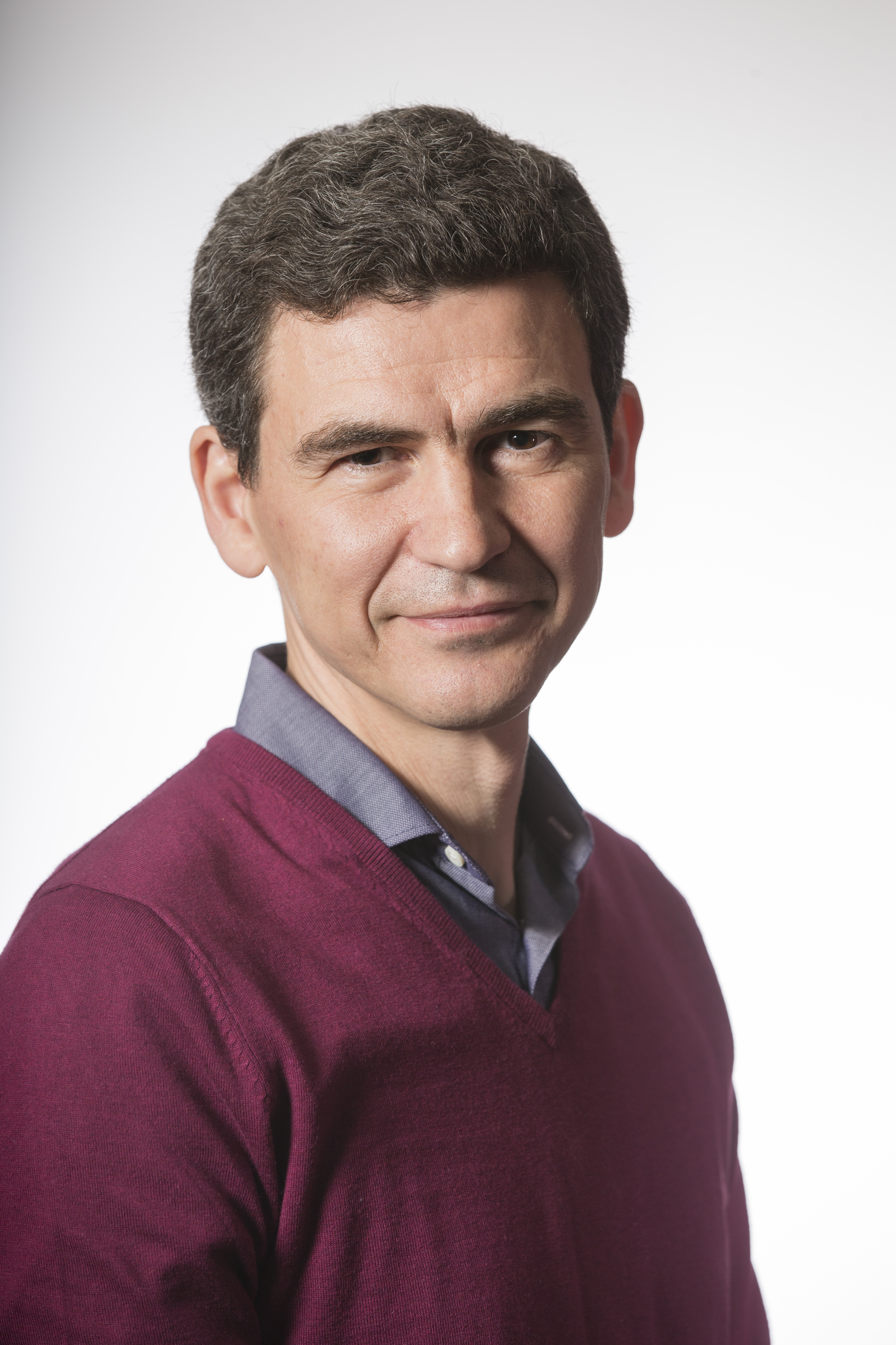 Rumanian researcher in experimental medicine at Radboud University Medical Centre Nijmegen (the Netherlands), 2016